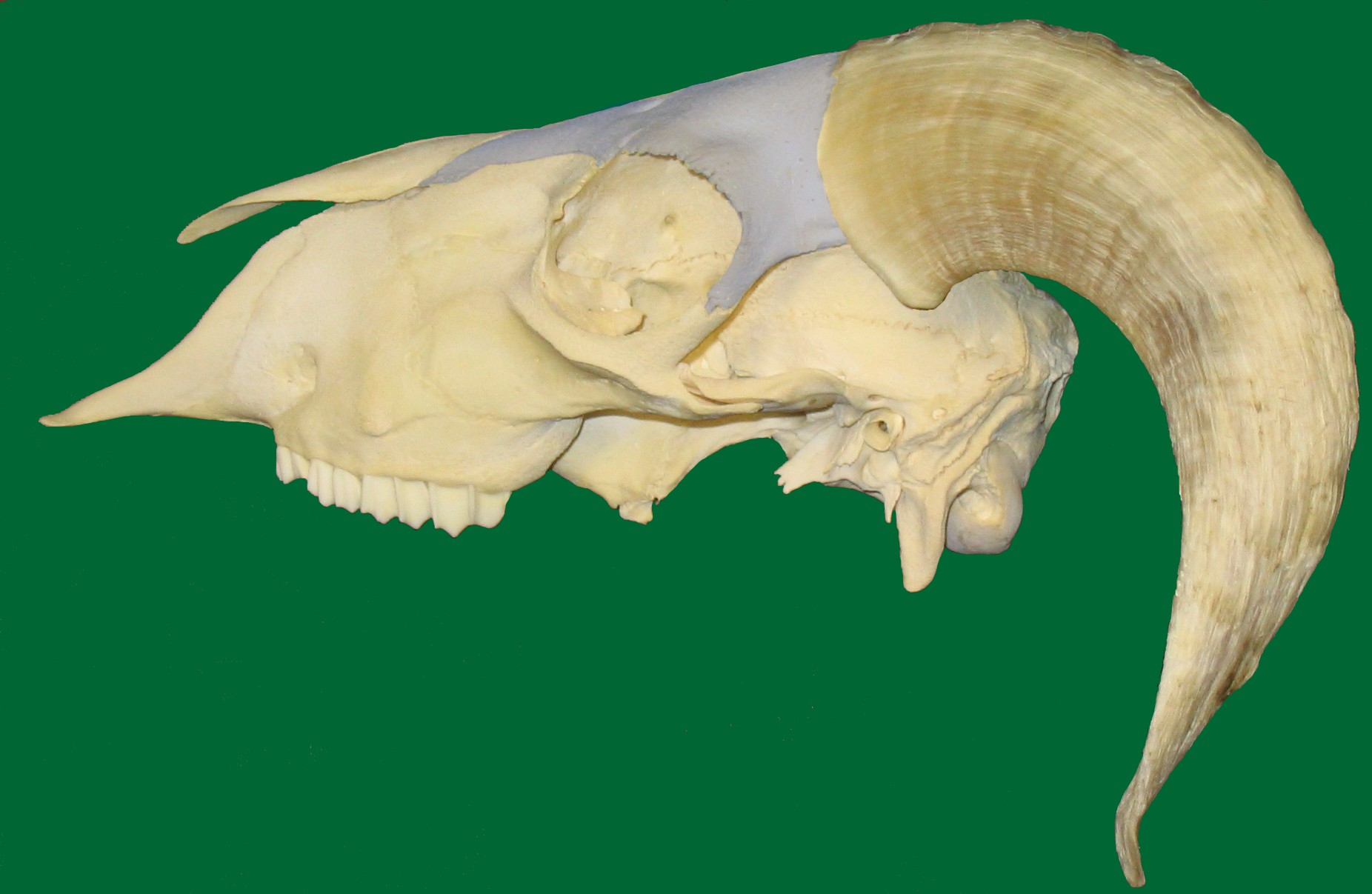 Skull of a sheep. frontal bone (Os frontale) coloured.